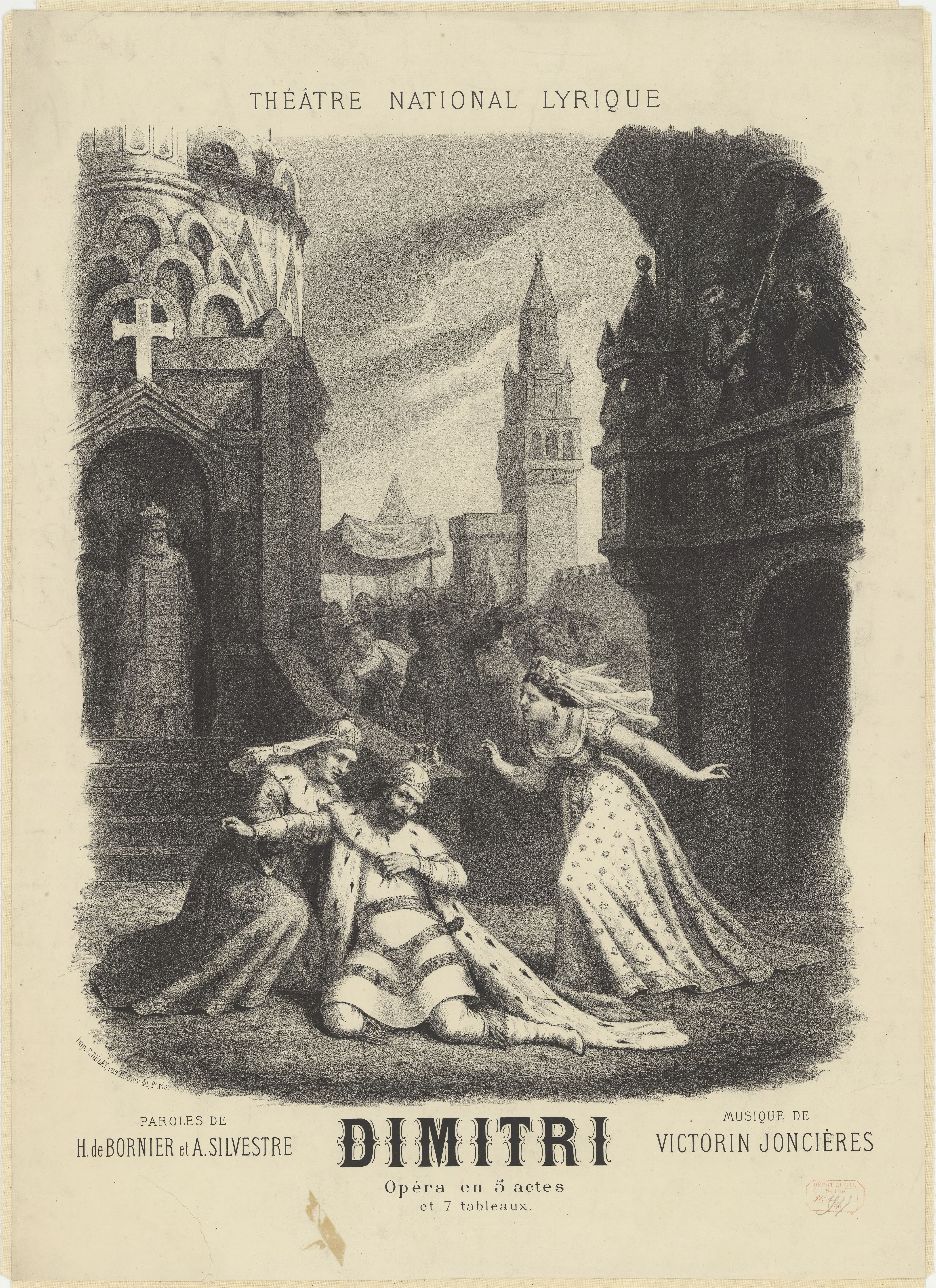 poster